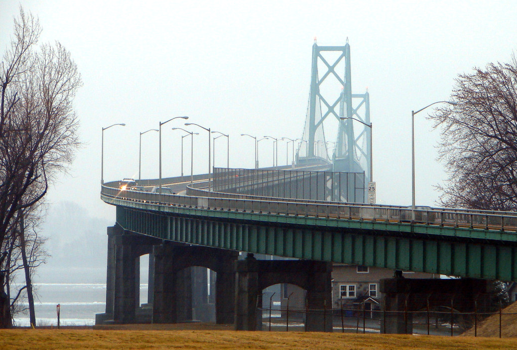 Ogdensburg-Prescott International Bridge, as seen from Johnstown, Ontario, Canada